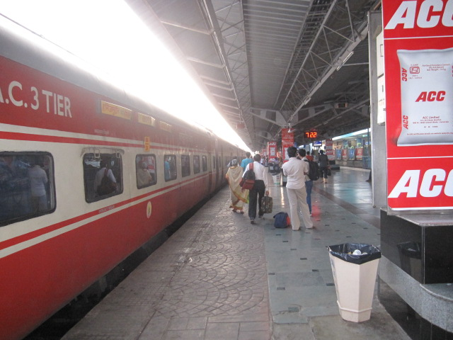 The Secunderabad Rajadhani at SC station